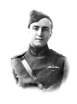 PORTRAIT OF LIEUTENANT FRANK HUBERT MCNAMARA OF NO.1 SQUADRON, AUSTRALIAN FLYING CORPS. MCNAMARA WAS THE FIRST AUSTRALIAN AIRMAN AWARDED THE VICTORIA CROSS (VC) FOR HIS PART IN RESCUING A FELLOW PILOT WHO HAD BEEN FORCED TO LAND BEHIND ENEMY LINES DURING AN AERIAL BOMB ATTACK BY ALLIED FORCES ON AN IMPORTANT TURKISH SUPPLY POINT AT GAZA, PALESTINE, 1917-03-20.